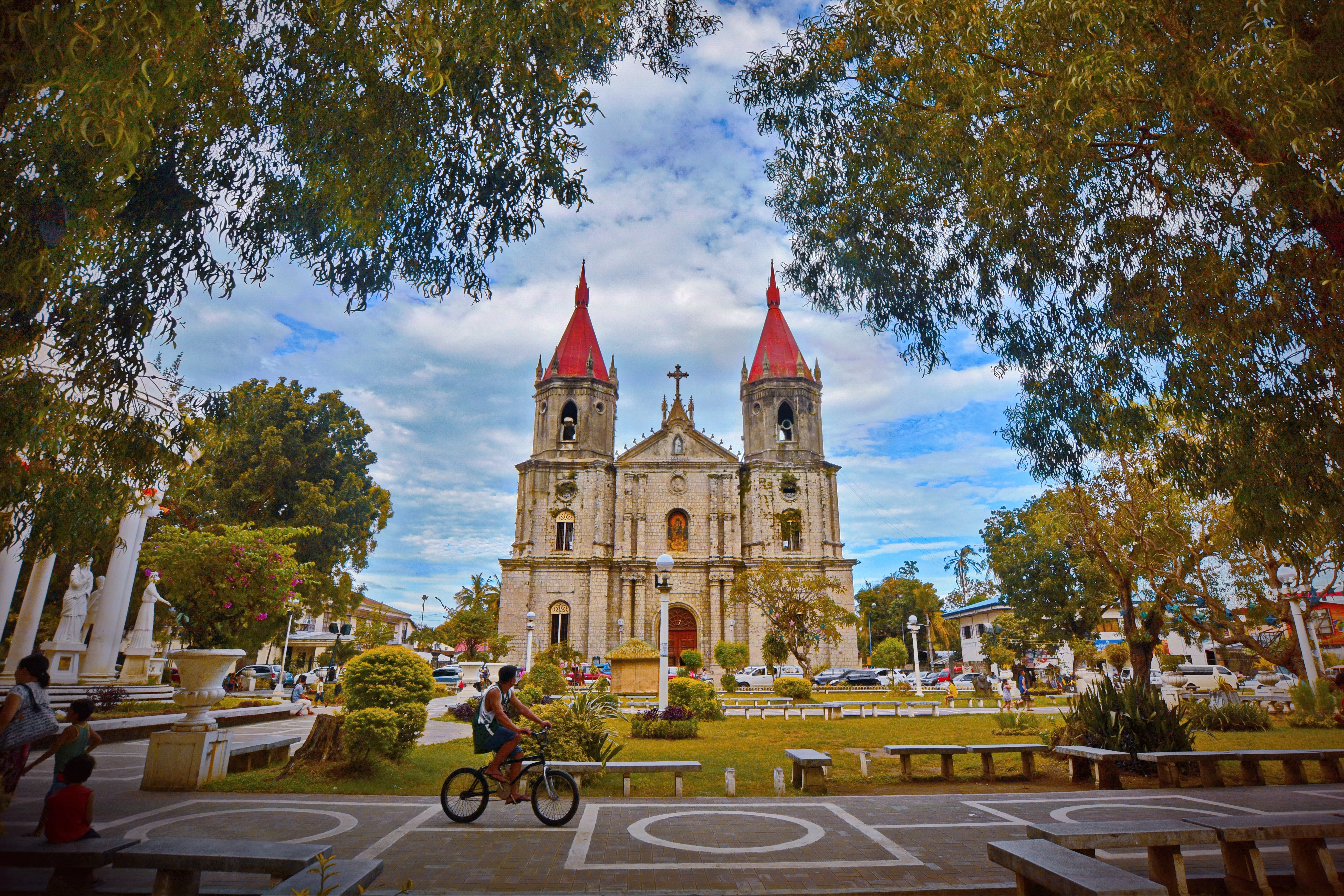 Molo Church was built in 1831 under Fray Pablo Montaño and was completed in 1888. This Gothic designed church is known for its two identical spires. Just like most churches during its time, it was made from coral rocks and limestone, which used egg whites with sand to bind the aggregates. The church served as an evacuation house for the victims of the World War II in Iloilo City. It was declared as a National Landmark in 1992. .